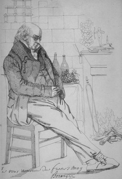 Pierre-Jean de Béranger (1780-1857), French songwriter